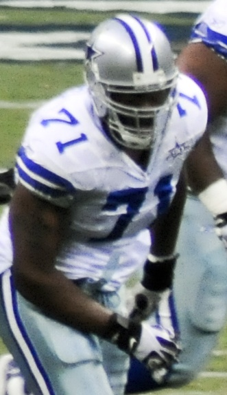 Alex Barron of the Dallas Cowboys.